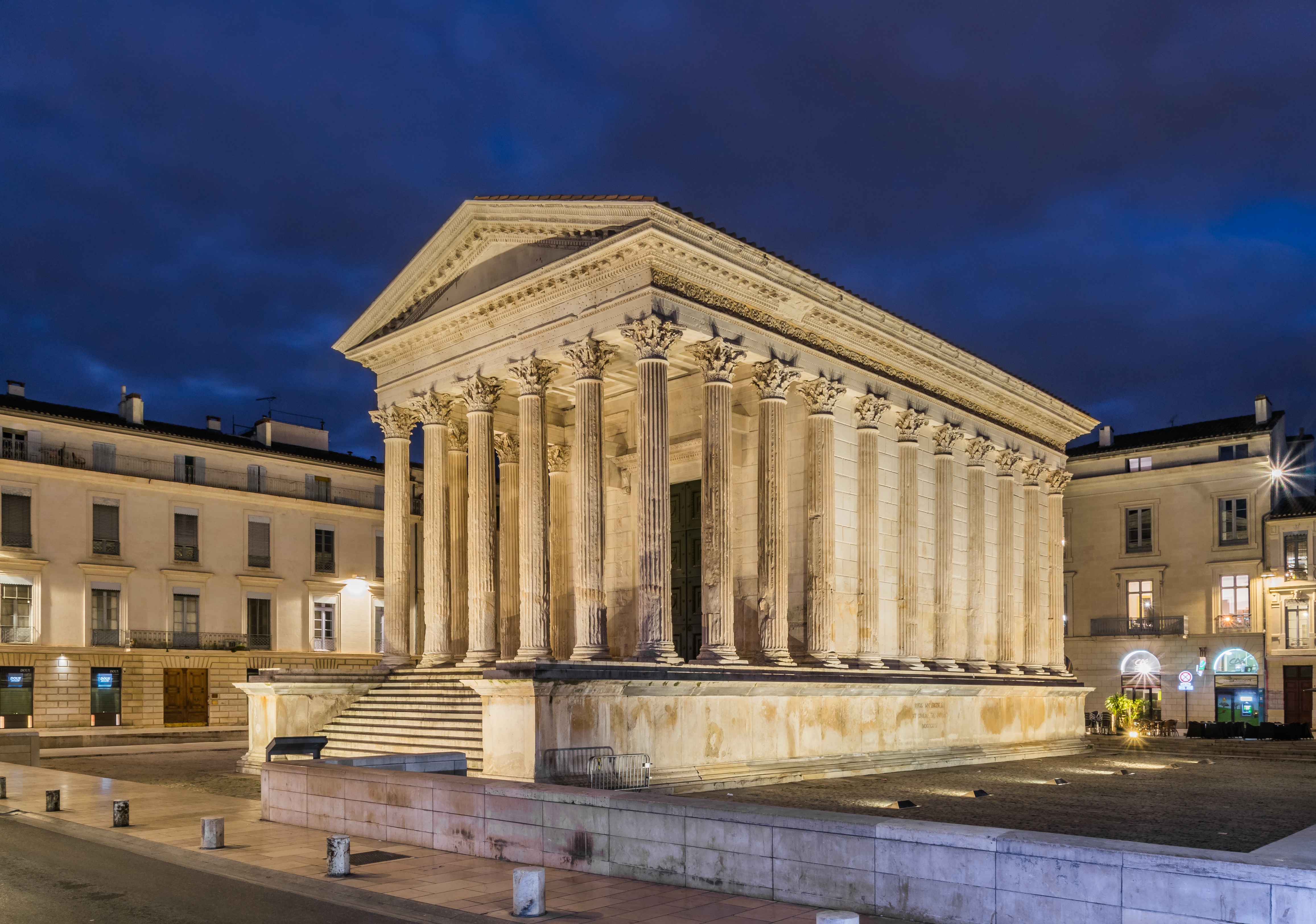 Maison Carrée in Nîmes, Gard, France